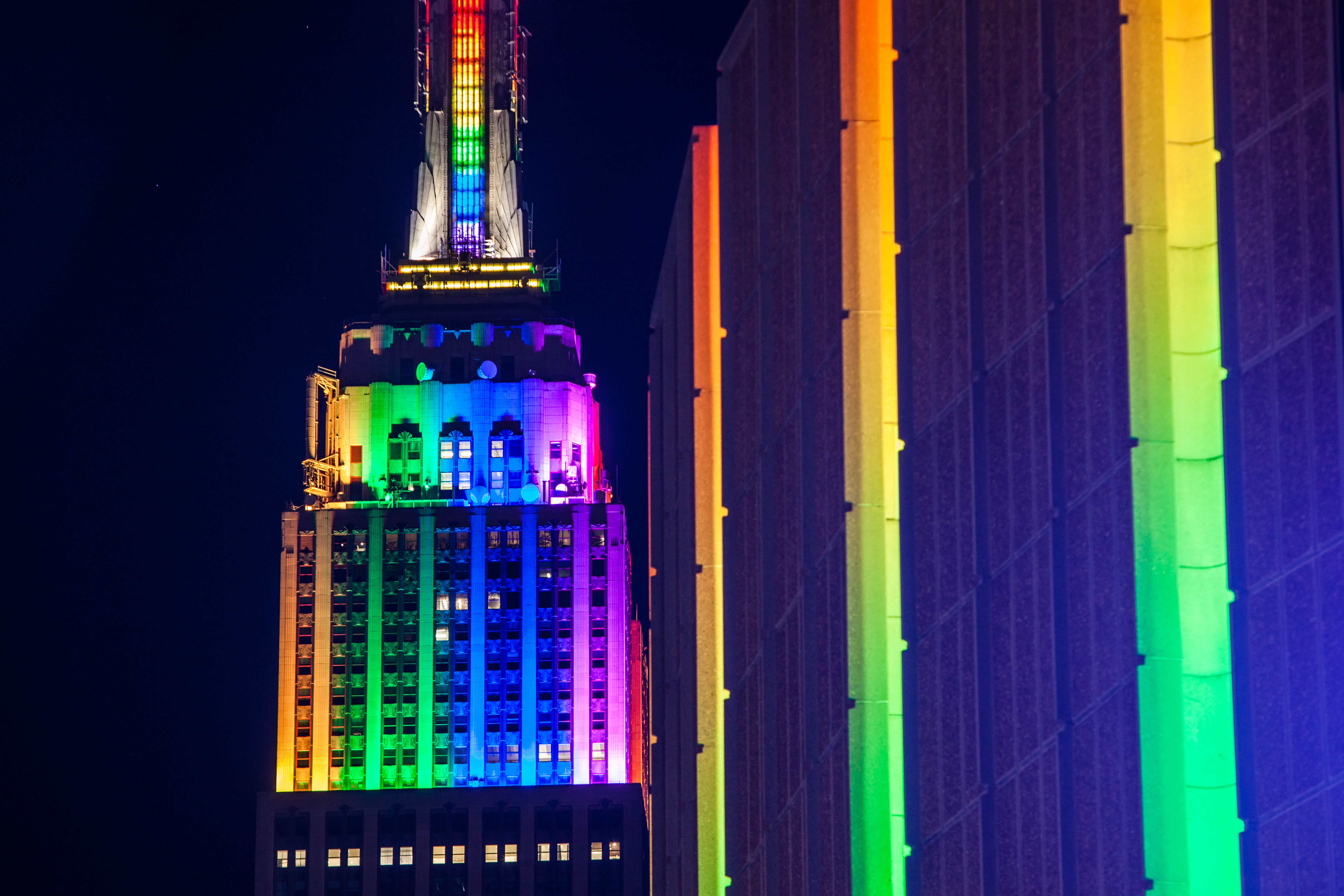 Rainbow Buildings for Gay Pride 2015